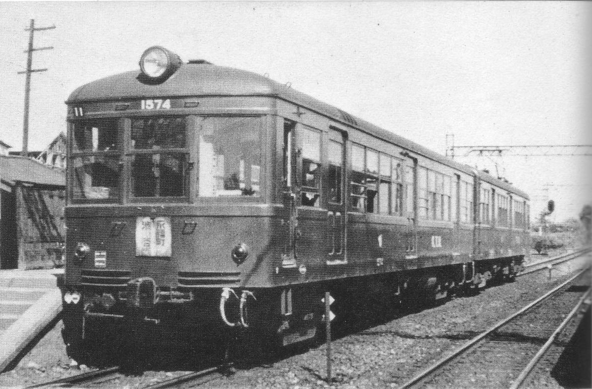 Keio Corporation 1570 series EMU car 1574 at Komaba Station (present-day Komaba-tōdaimae)